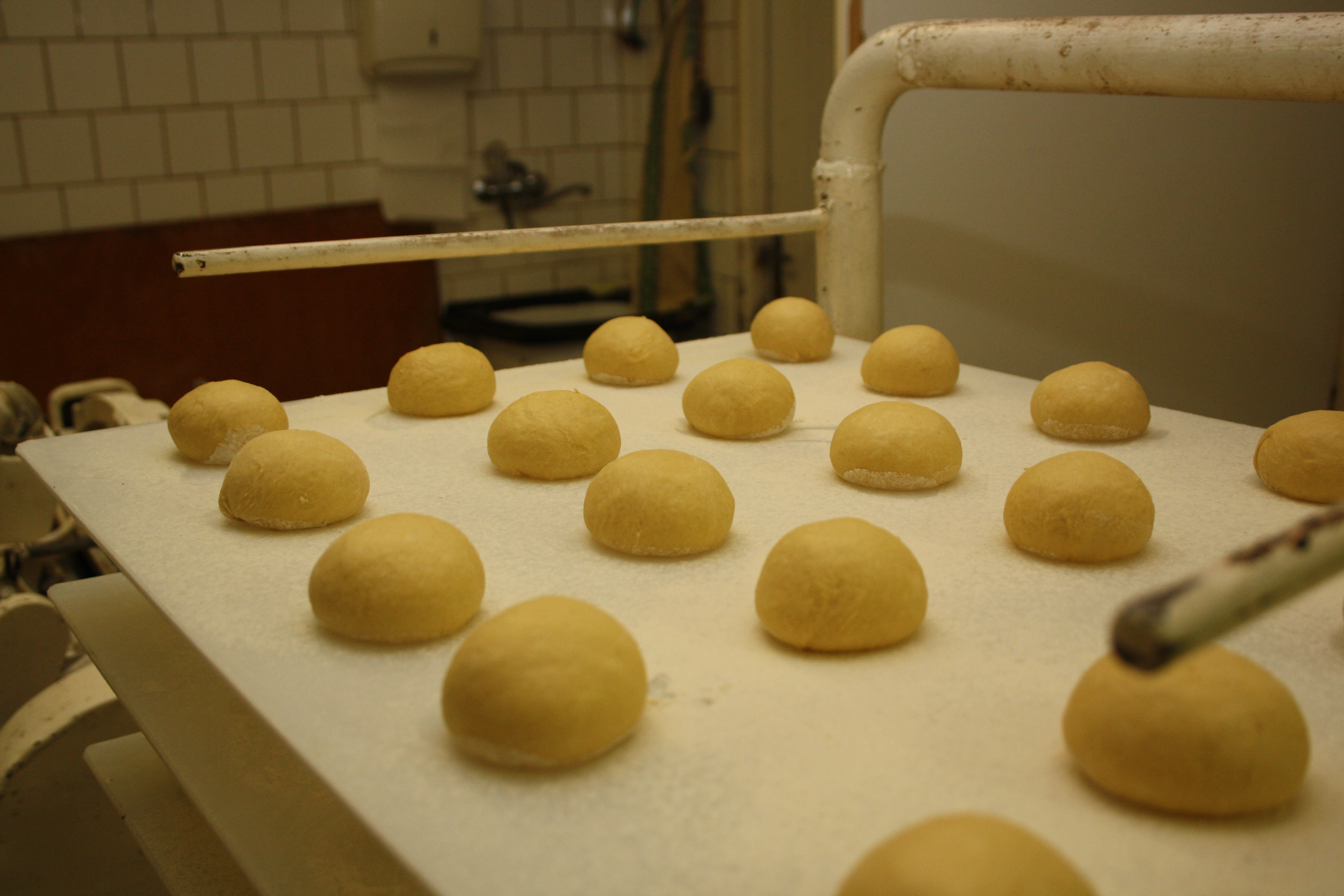 Production process of small czech donuts , Czech Republic This photograph was taken with a DSLR from WMCZ's Camera grant. This picture was taken and/or got within the scope of the 'Acquiring scientific and specialized pictures' grant.